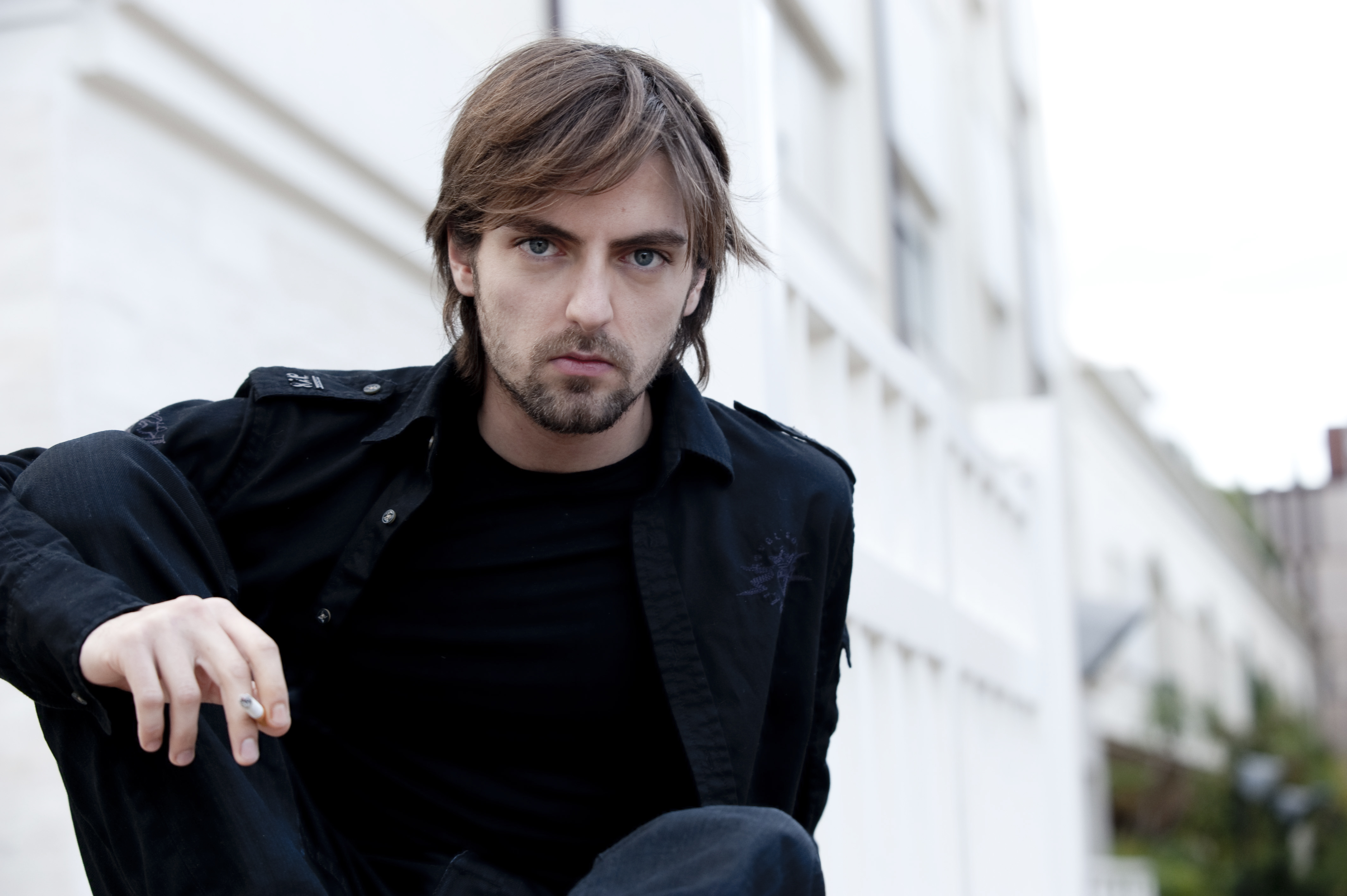 The Italian actor Damiano Russo photographed by Michela Marcato